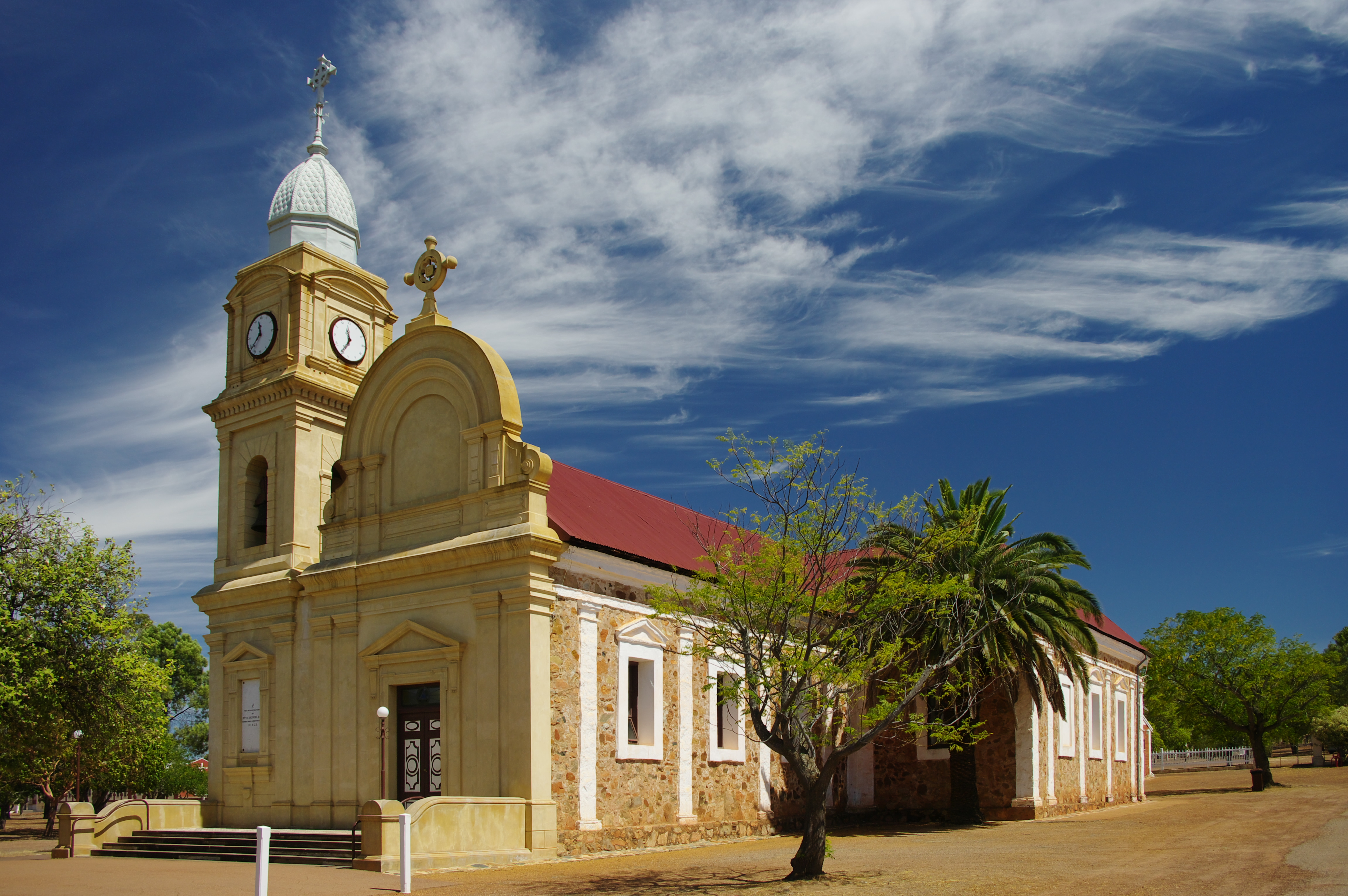 The Abbey Church, New Norcia, Western Australia